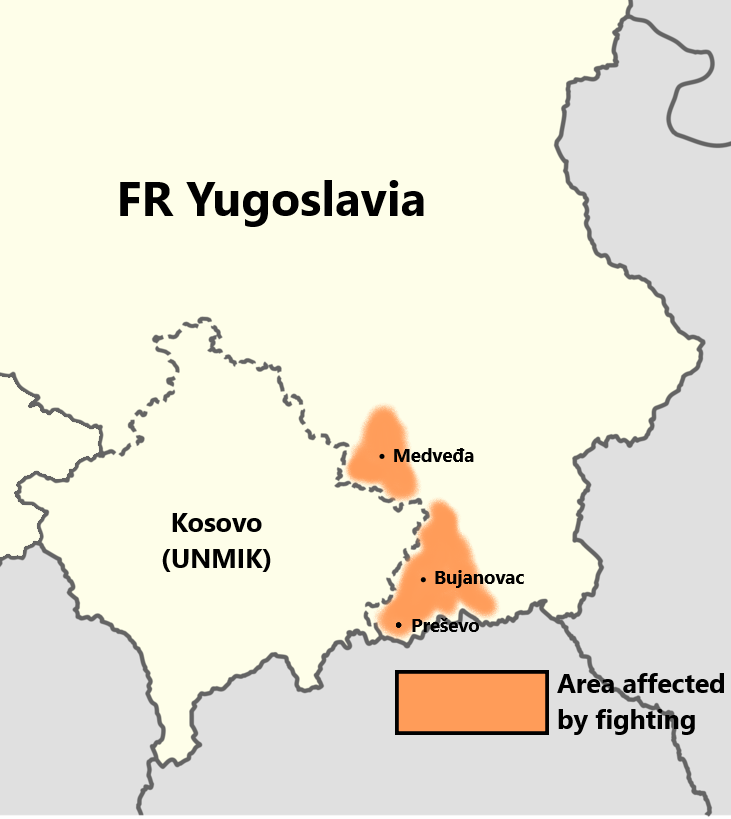 Insurgency in Preševo Valley